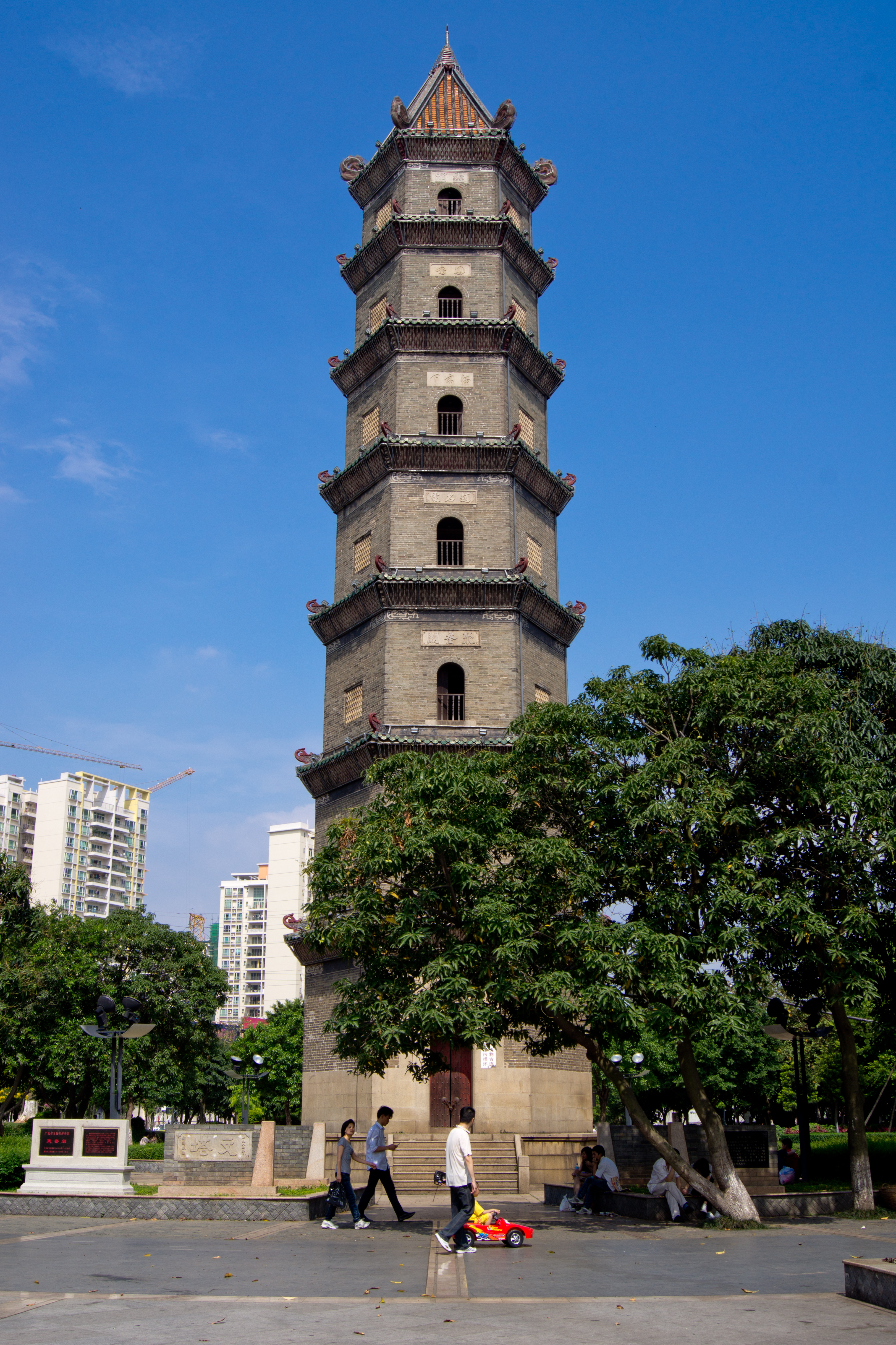 Front of Guizhou Wenta (Wen Tower)